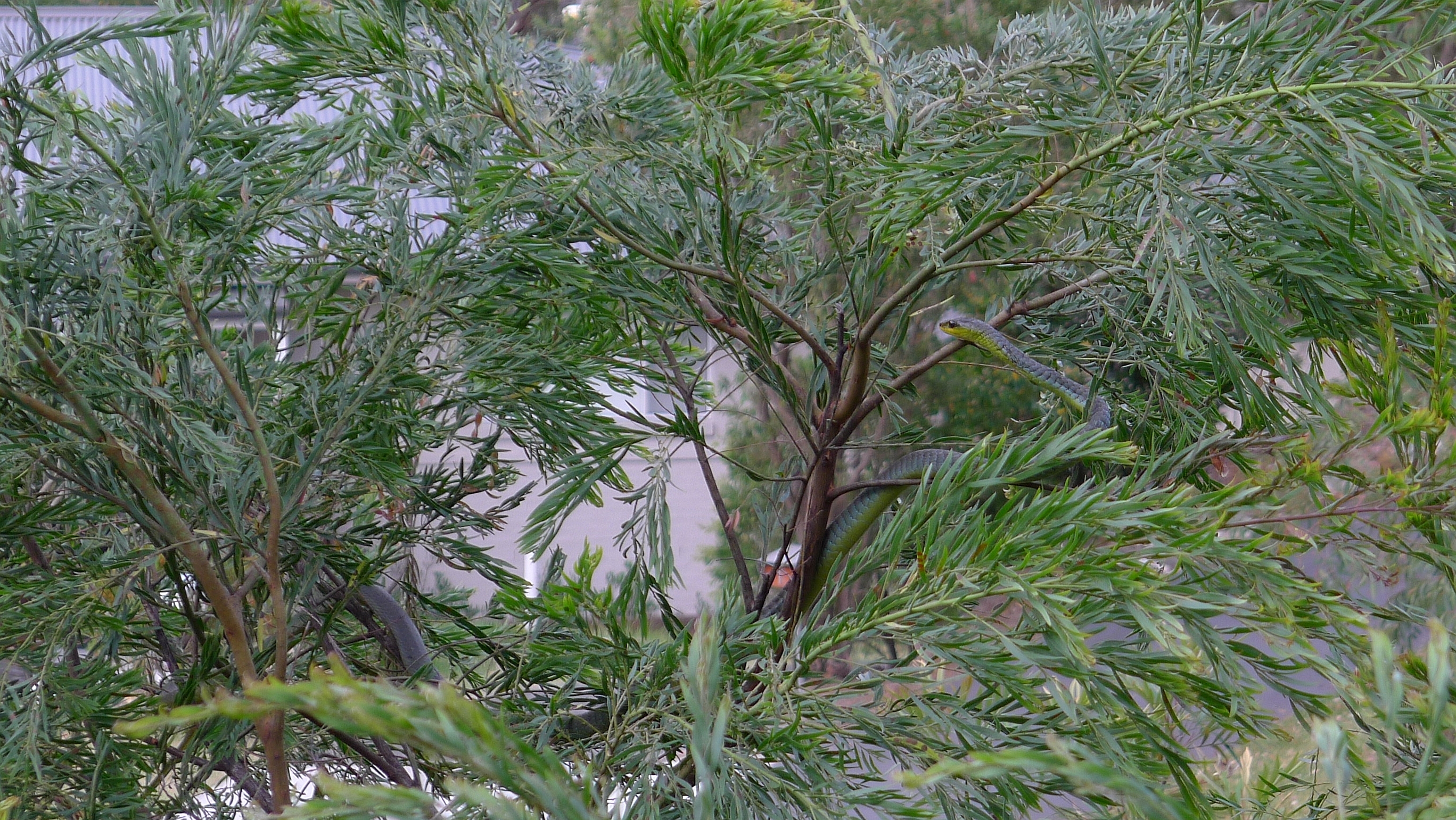 Green Tree Snake, Dendrelaphis punctulatus, about 1.2 m long, in my garden. Como NSW Australia, November 2013.